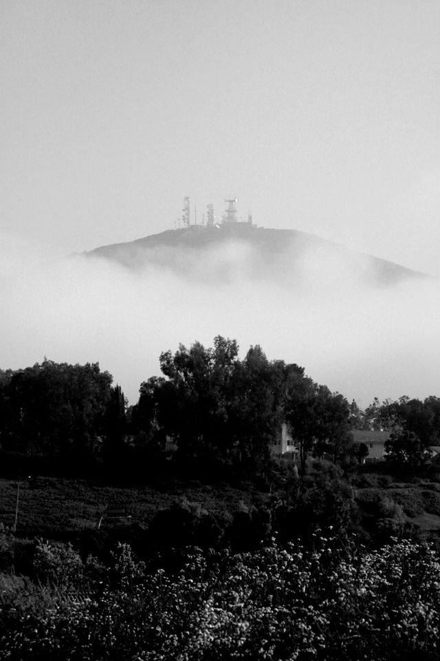 Black Mountain in San Diego, California